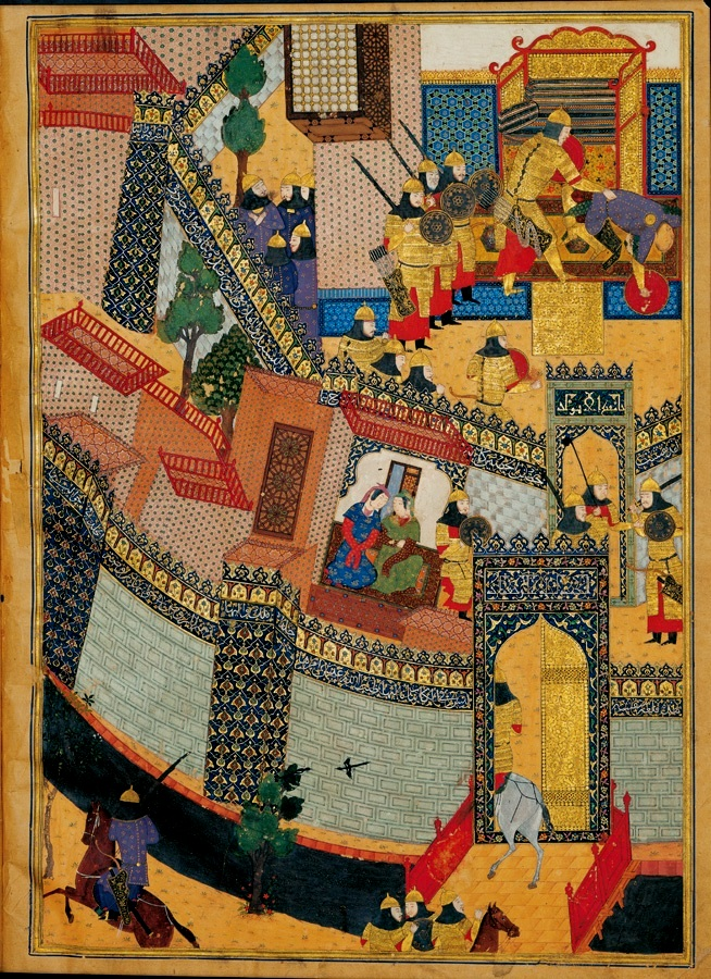 Isfandiyar_kills_Arjasp_to_rescue_his_sisters._Baysungur's_Shahnama,_1430._The_Gulistan_Palace_Museum,_Tehran.f401